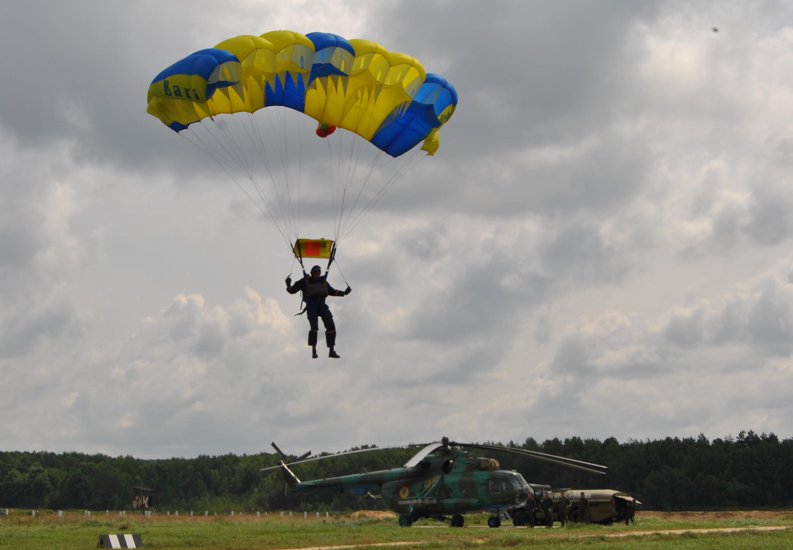 YAVORIV, Ukraine -- A Ukrainian paratrooper prepares to land during a casualty evacuation demonstration July 15 during Exercise Rapid Trident here Rapid Trident 2013 is a U.S. Army Europe-led, multinational field training and command post exercise occurring at the International Peacekeeping and Security Center in Yavoriv, Ukraine July 8-19 that involves approximately 1,300 troops from 17 nations. The exercise is designed to enhance interoperability between forces and promote regional stability and security. (Ukrainian Ministry of Defense photo by Lt. Col. Taras Gren)